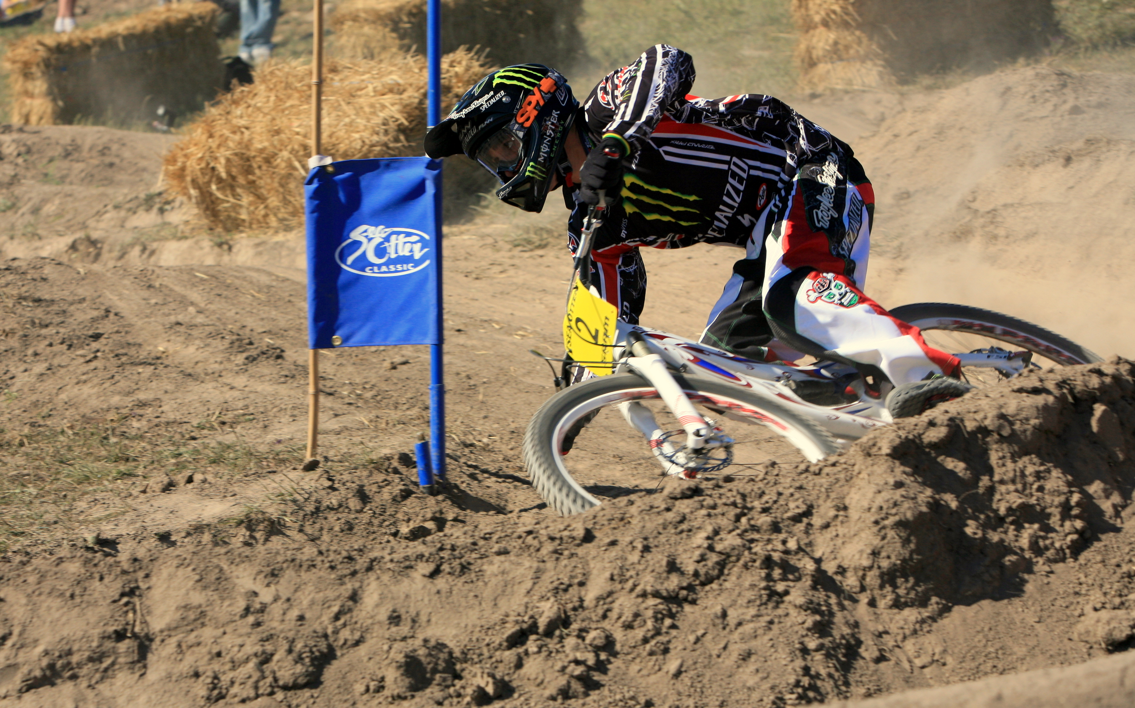 Sam Hill, winning the Dual Slalom at the 2009 Sea Otter Classic in Laguna Seca, CA.